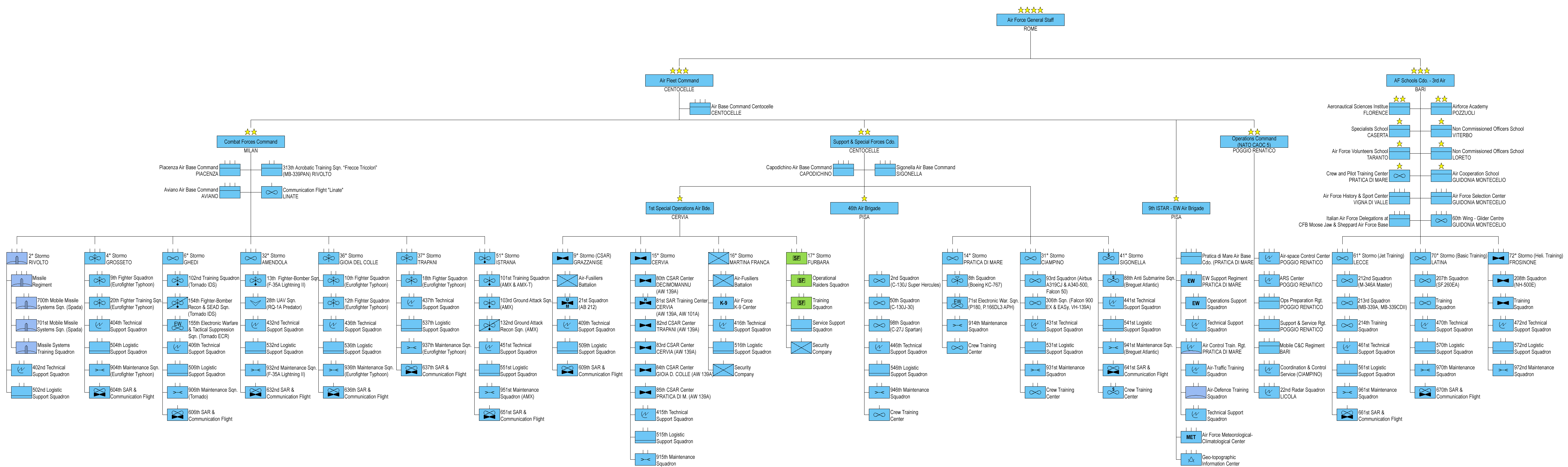 Italy - Air Force (Aeronautica Militare) Structure